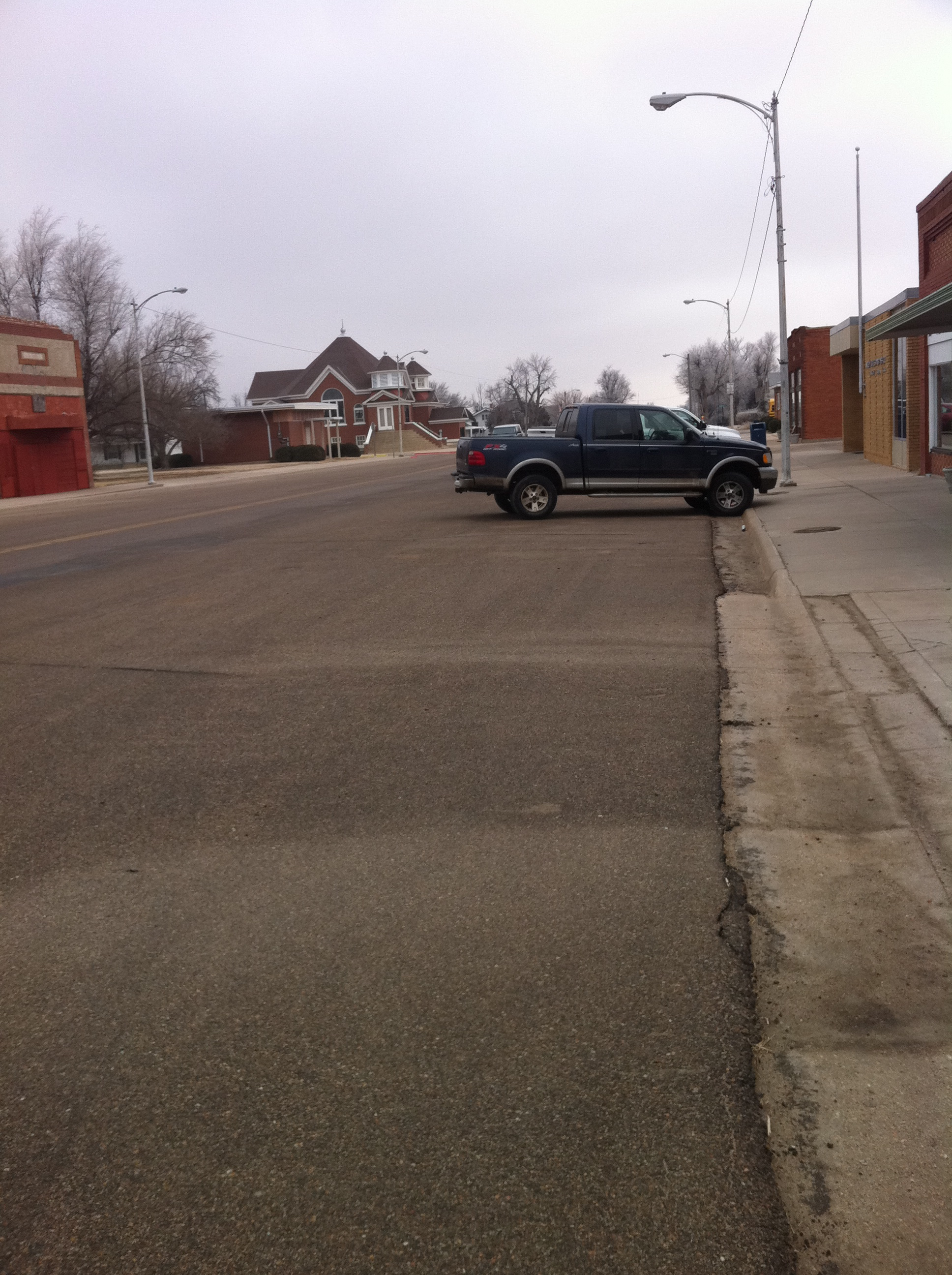 Just a street shot of Bucklin, Kansas